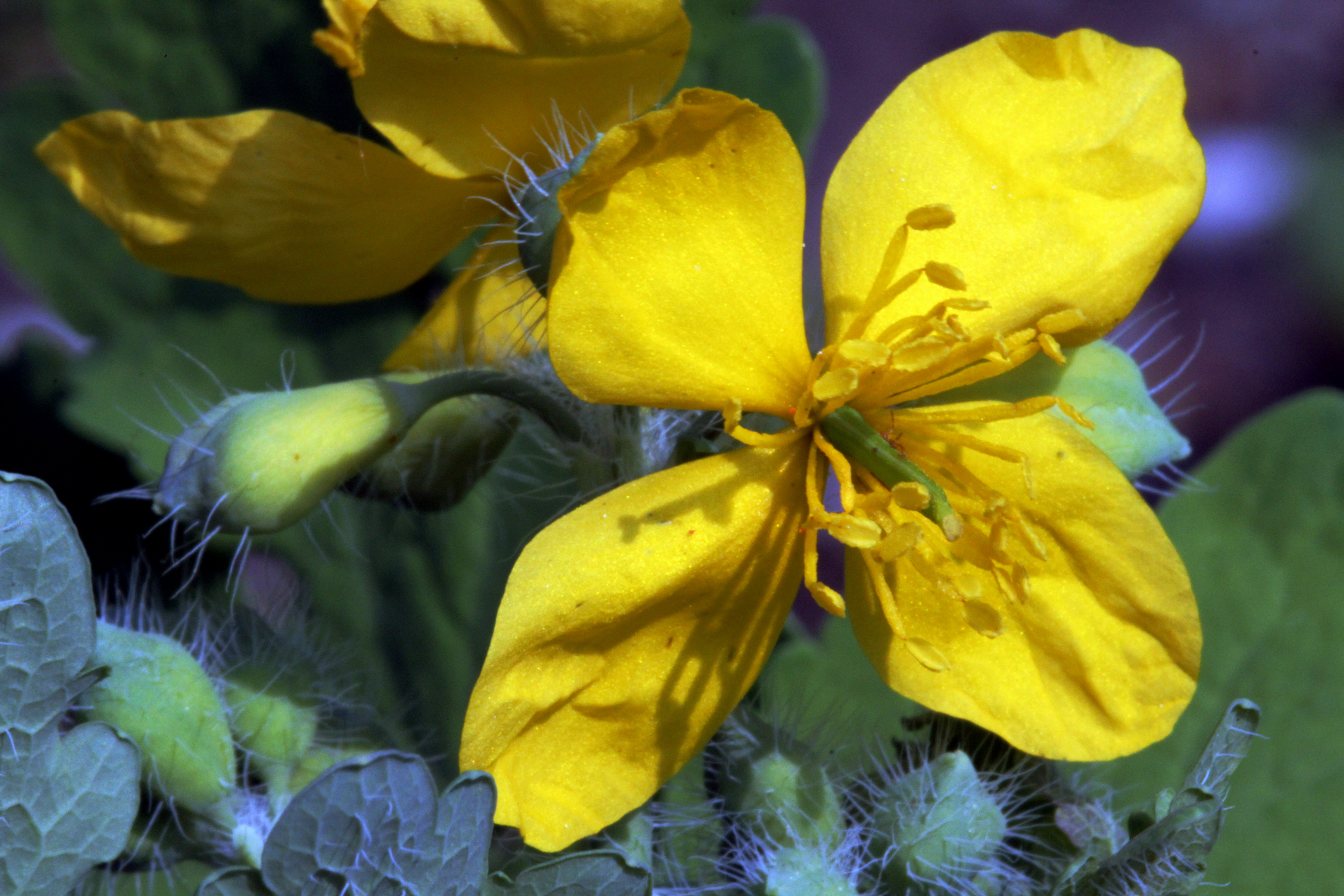 Flower of plant Chelidonium majus, east Bohemia, Czech Republic